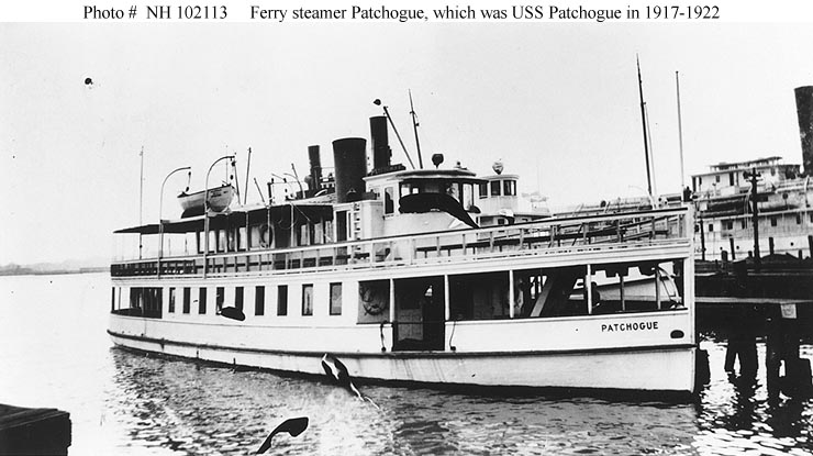 The commercial ferryboat Patchogue somtime between 1912 and 1917, prior to her United States Navy service as the ferry USS Patchogue (ID-1227), later